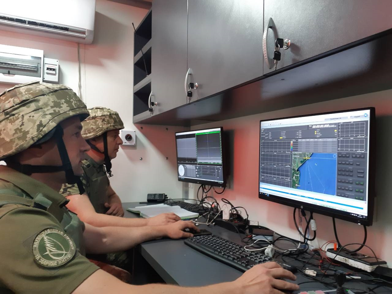 Danish Weibel Scientific A.S. MFTR-2100/40 radar during Vilkha-M tests, Ukraine 2019